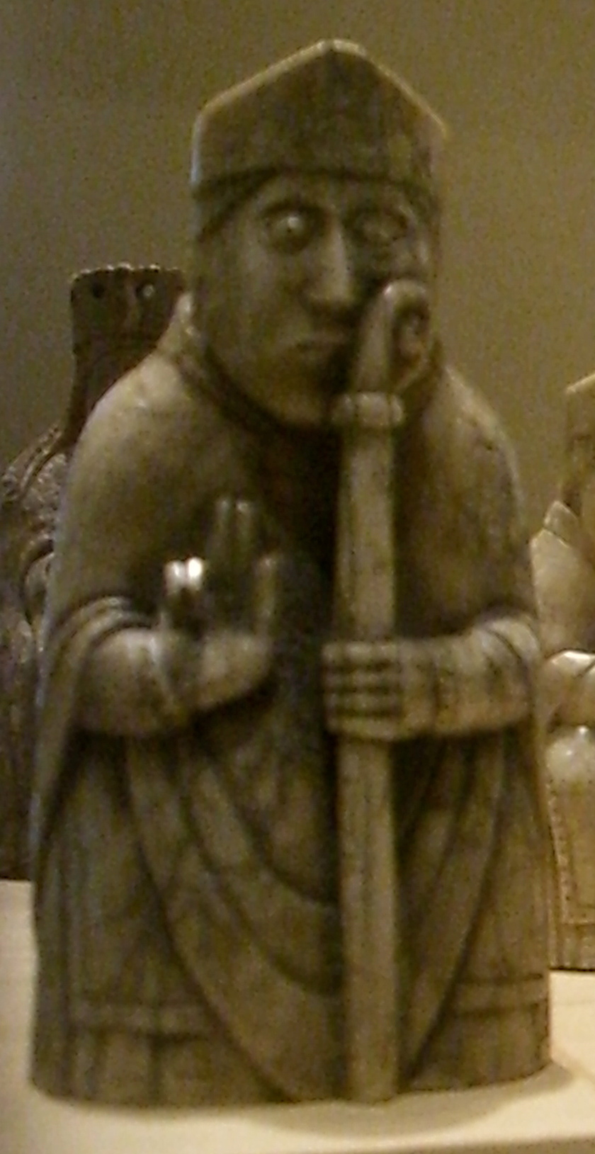 A photograph of one of the Lewis chessmen. This is a cropped version of File:Lewis chessmen.jpg.